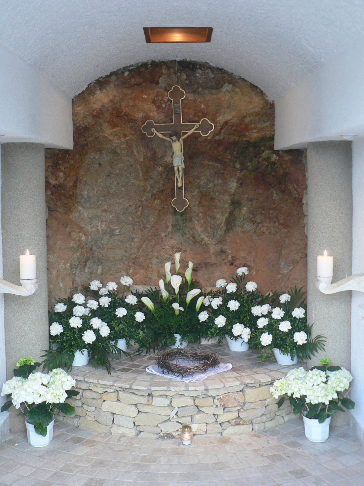 A szél-hegyi barlang, a keresztút utolsó stációja